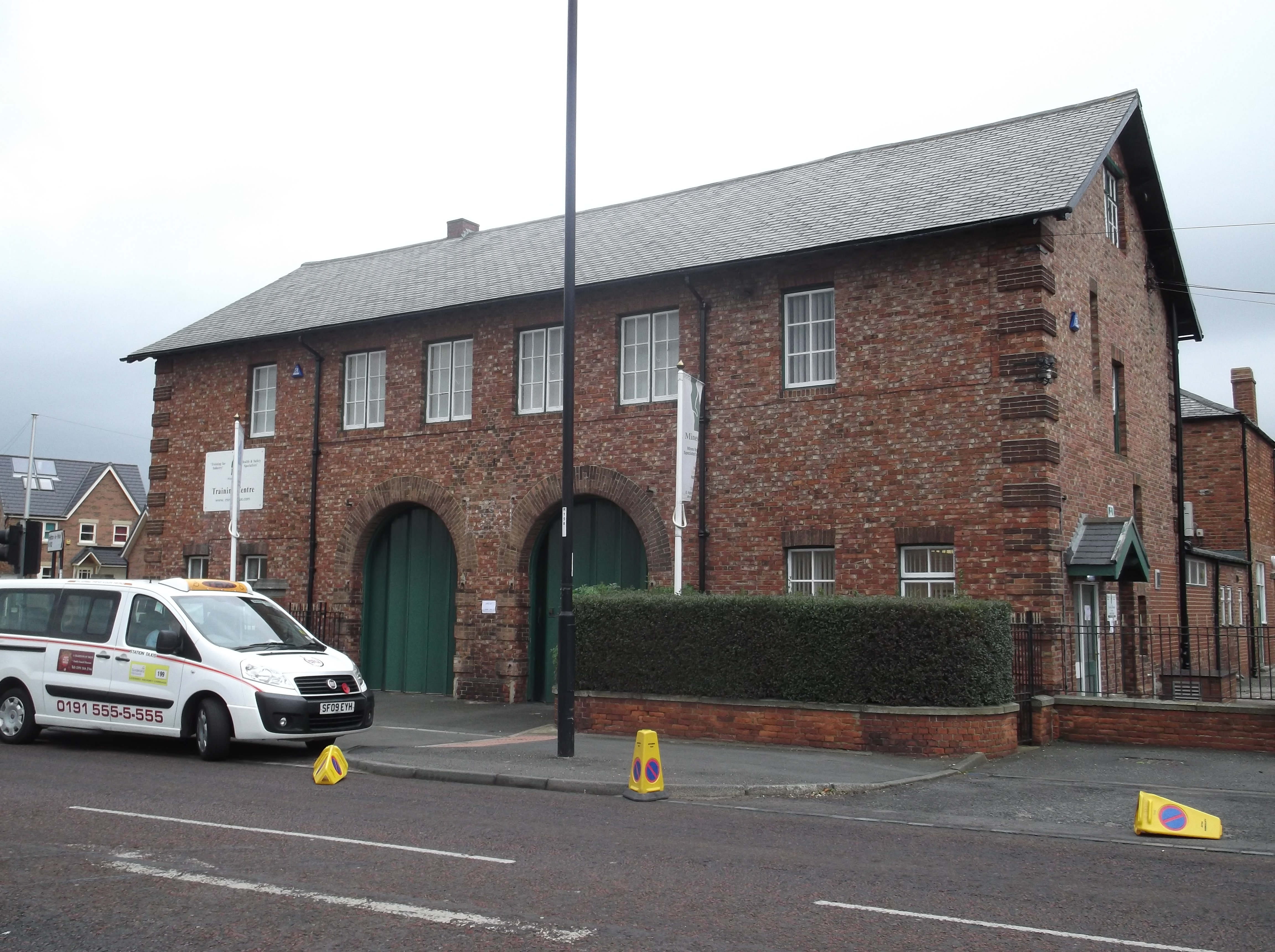 1/10 photos uploaded taken at Houghton Le Spring Mines Rescue station on its centenary open day 3rd December 2013. The exterior of the 1913 building.